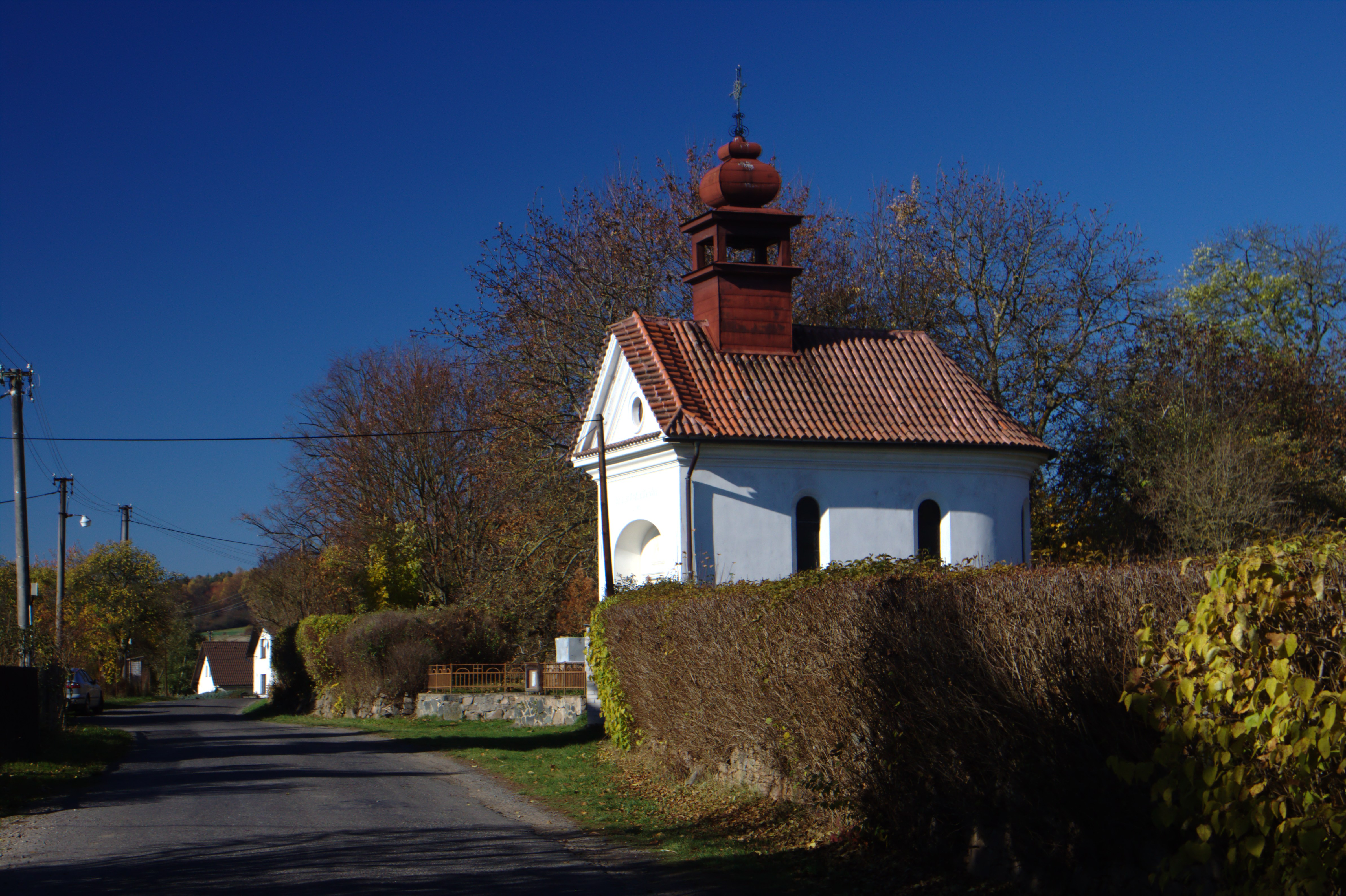 Main chapel in the village of Životice, Central Bohemia, CZ